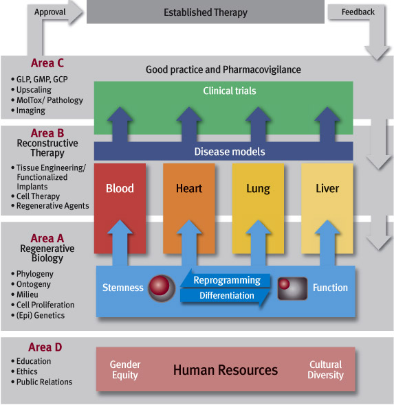 Research Areas of the Cluster of Excellence REBIRTH